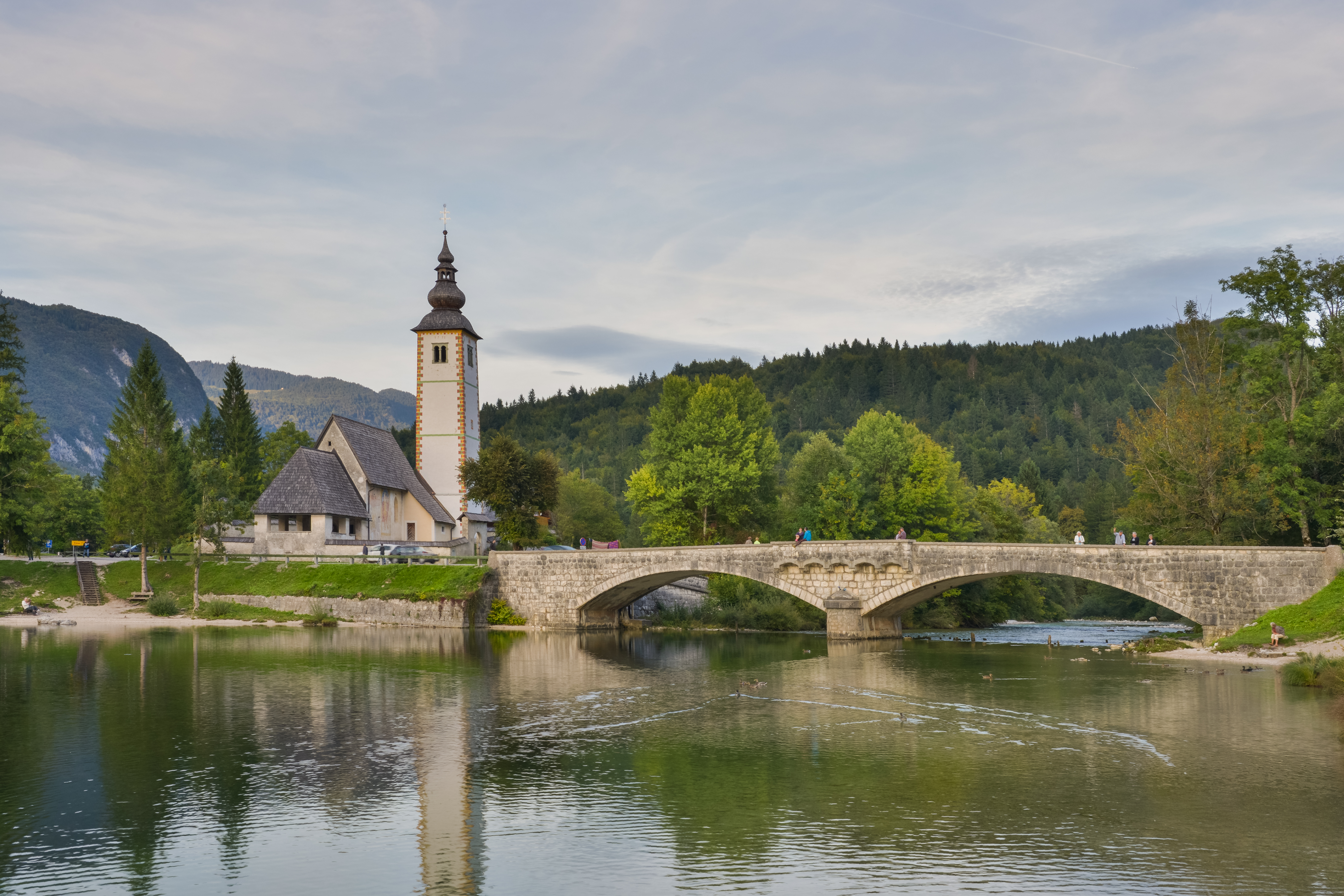 Church of St John the Baptist at Bohinj Basin within the Julian Alps in Slovenia